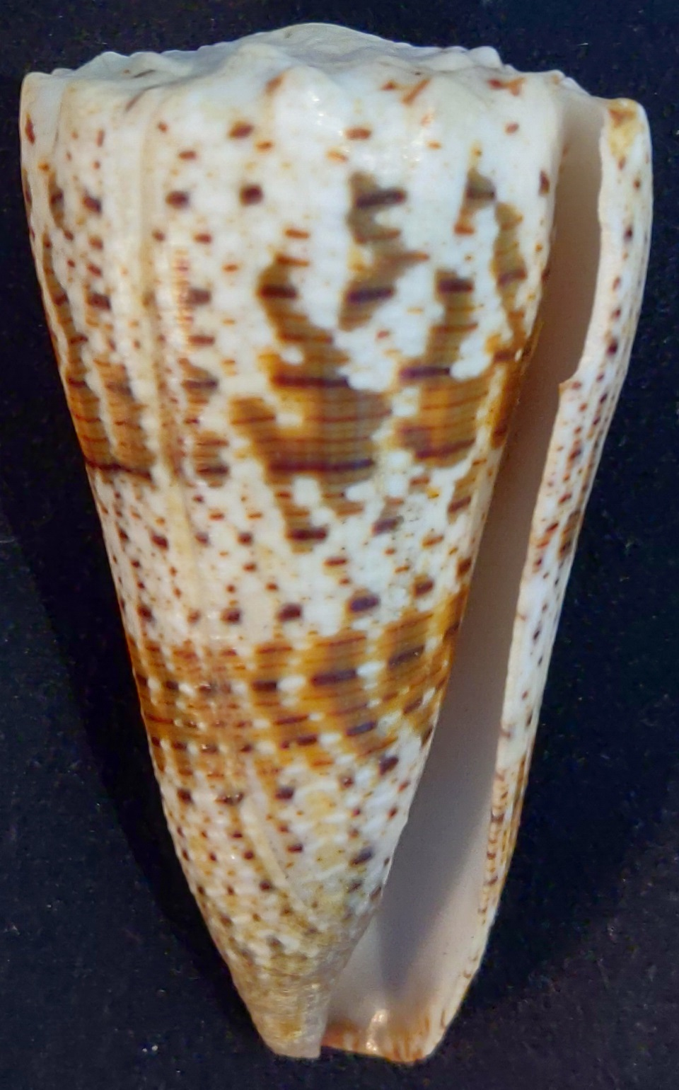 Conus Imperialis Compactus Front